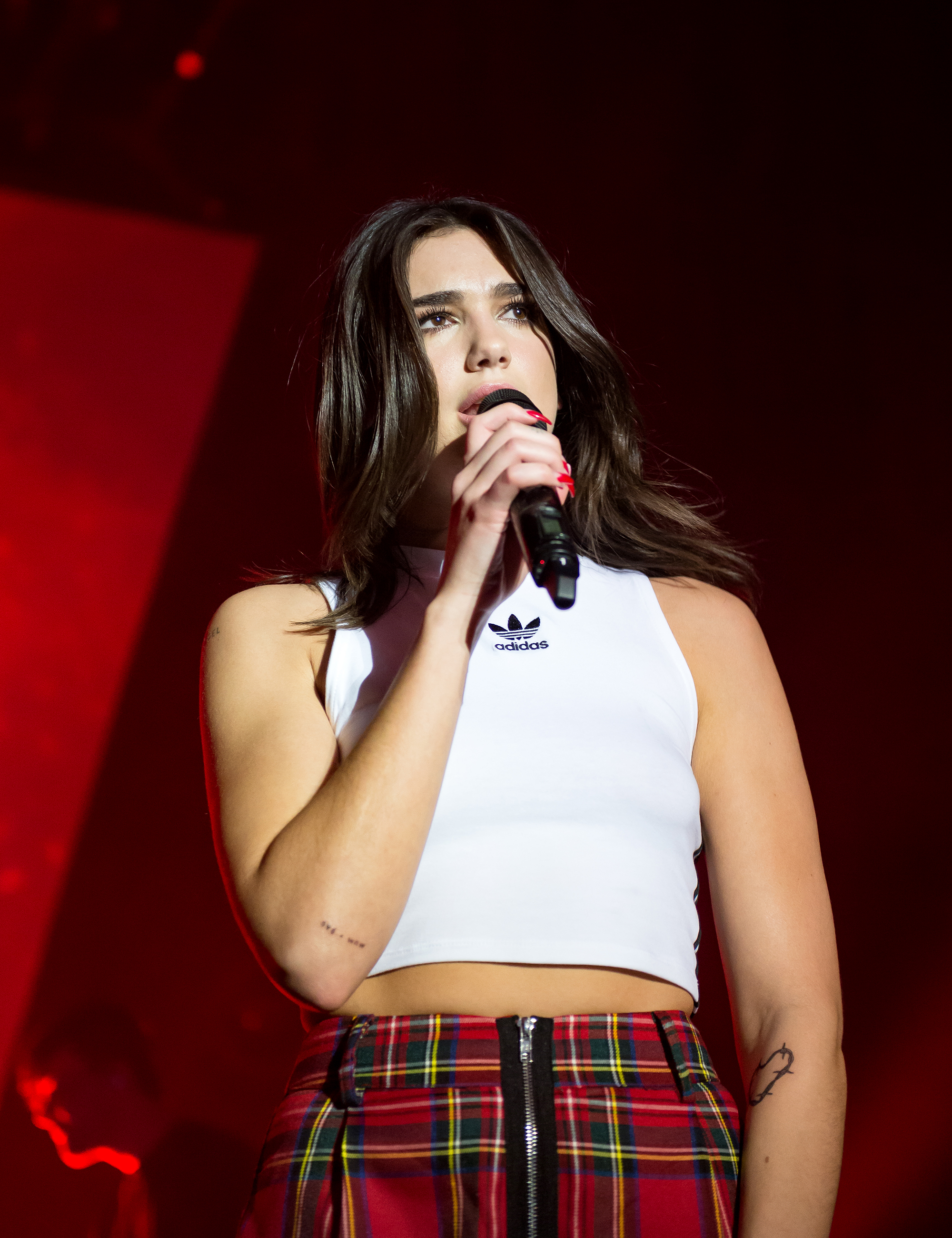 Dua Lipa performing live at The Palladium in Hollywood, Los Angeles, California, on Thursday, February 8, 2018. The first of two sold out nights at this venue on Dua's "Self-Titled" Tour. Shot for Live Nation's Ones To Watch.